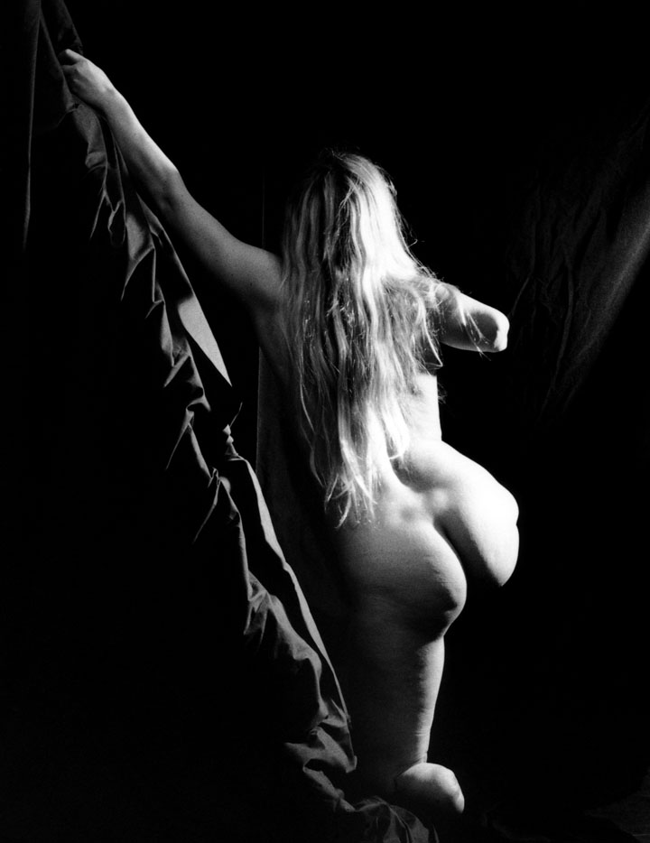 black and white photograph